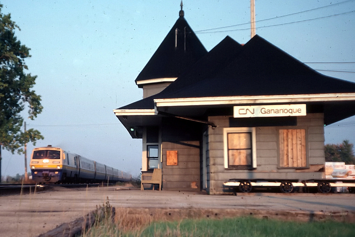 CN depot and westbound LRC train, Gananoque Ontario September 1982.Scan from 35mm slide.